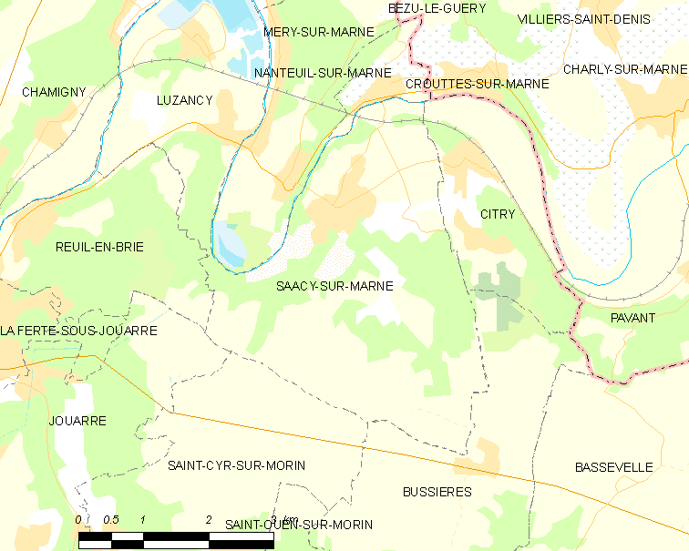 Map of French municipality Saâcy-sur-Marne